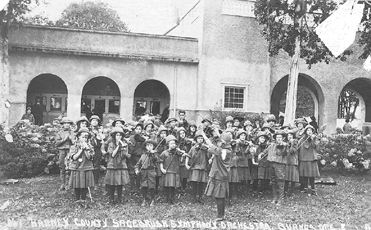 Postcard photograph of Sagebrush Symphony Orchestra during Oregon State Fair tour of 1916; group photo taken at the Eleventh Street Theater in Portland, Oregon while touring the Portland area and performing at the Oregon State Fair in Salem.